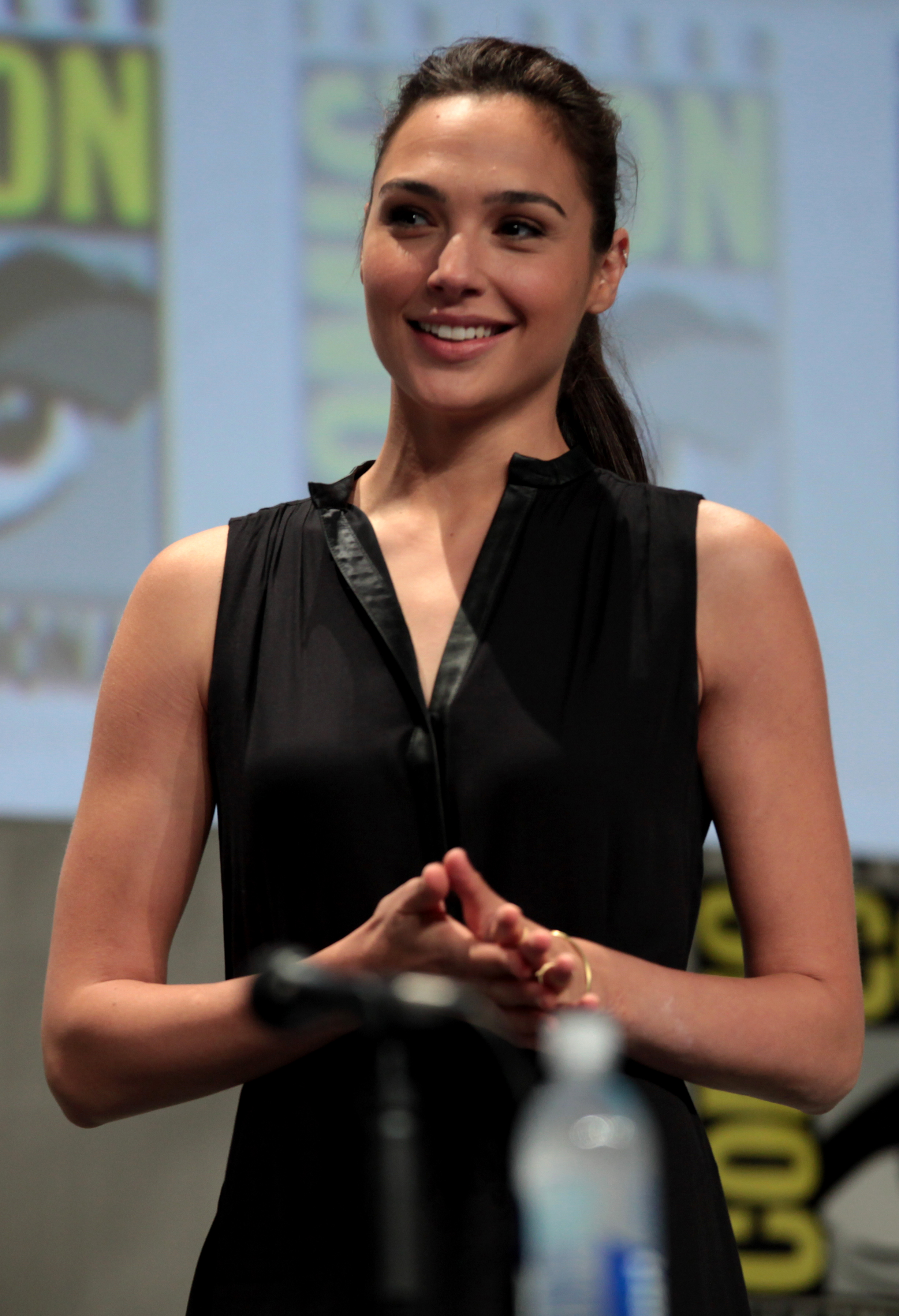 Gal Gadot, Israeli actress and model